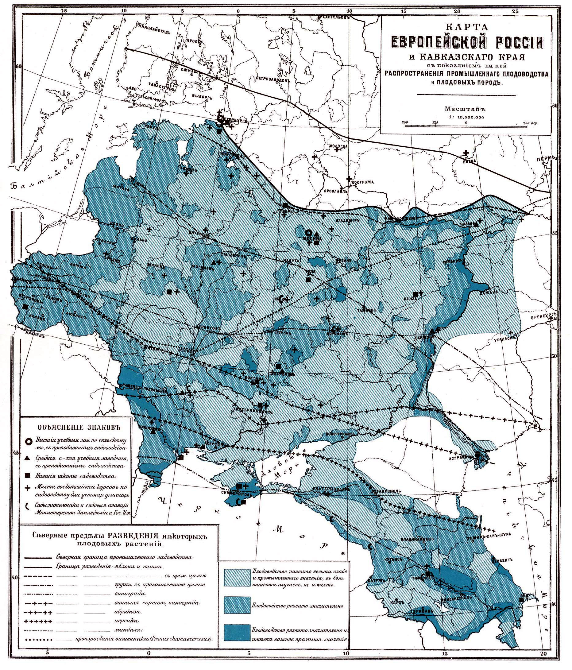 Illustration from Brockhaus and Efron Encyclopedic Dictionary (1890—1907)